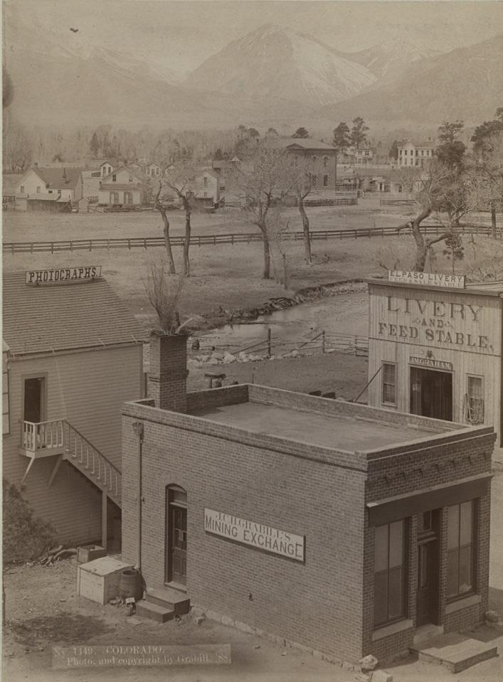 Buena Vista, Colorado. "Mining Exchange and Assay Office, J C H Grabill" in the foreground. JCH Grabill was a well-known photographer at that time, Grabills photography studio is behind his assay office (sign on roof).